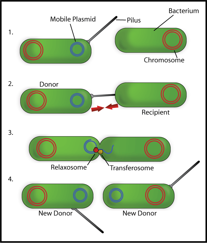 Overview of bacterial conjugation in 4 steps